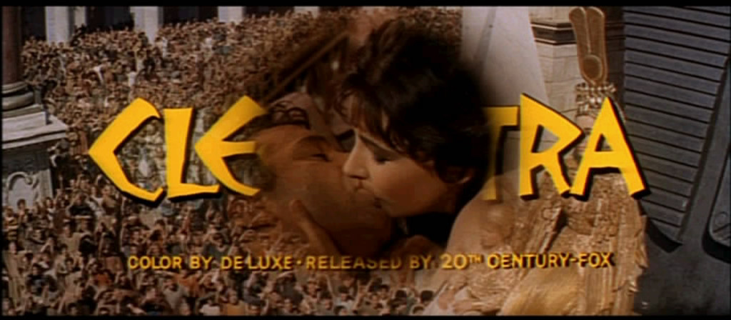 Screenshot from the trailer for the film Cleopatra.